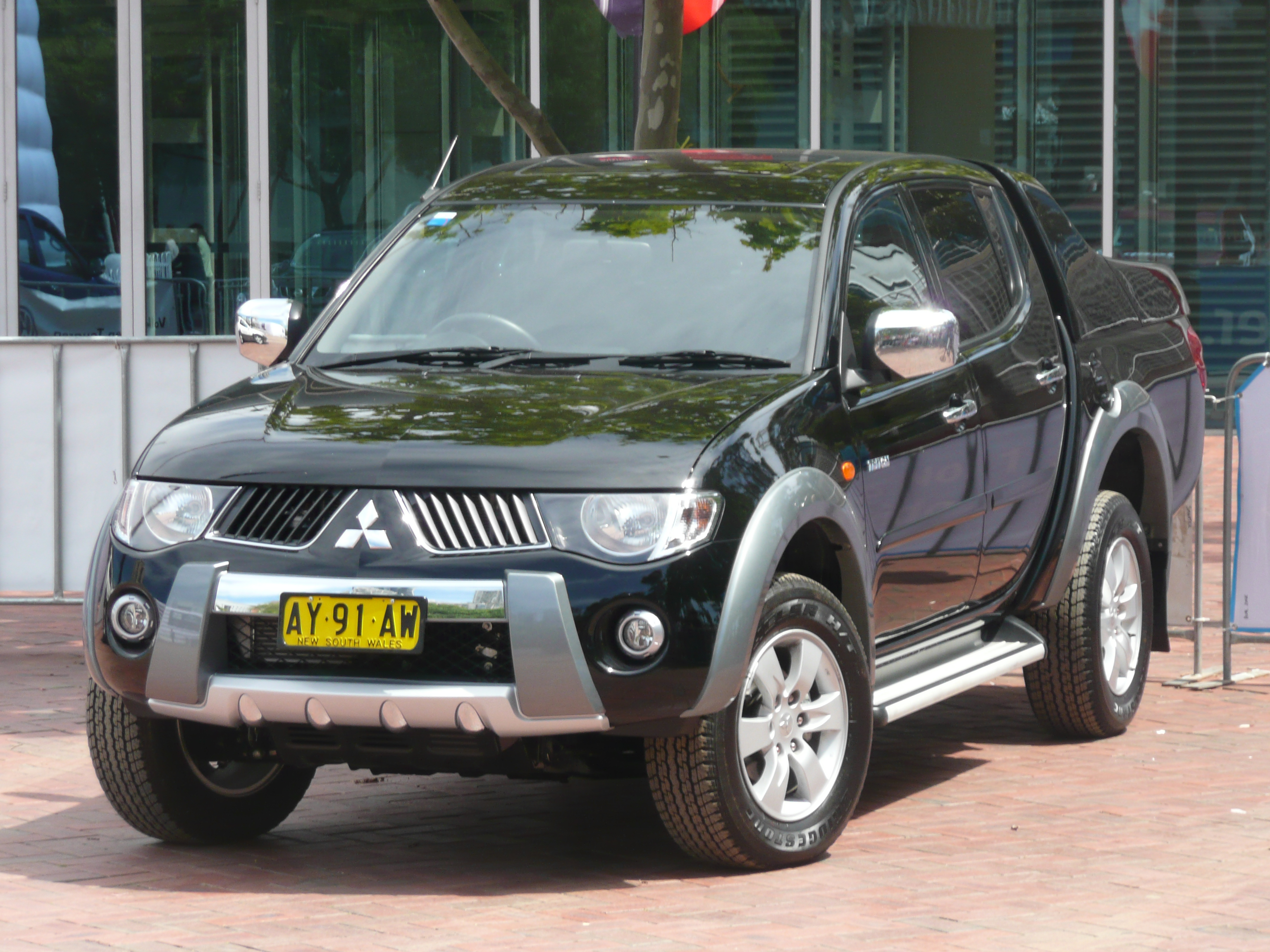 2008 Mitsubishi Triton (ML) GLS Fastback 4-door utility. Photographed at the 2008 Australian International Motor Show, Sydney, New South Wales, Australia.